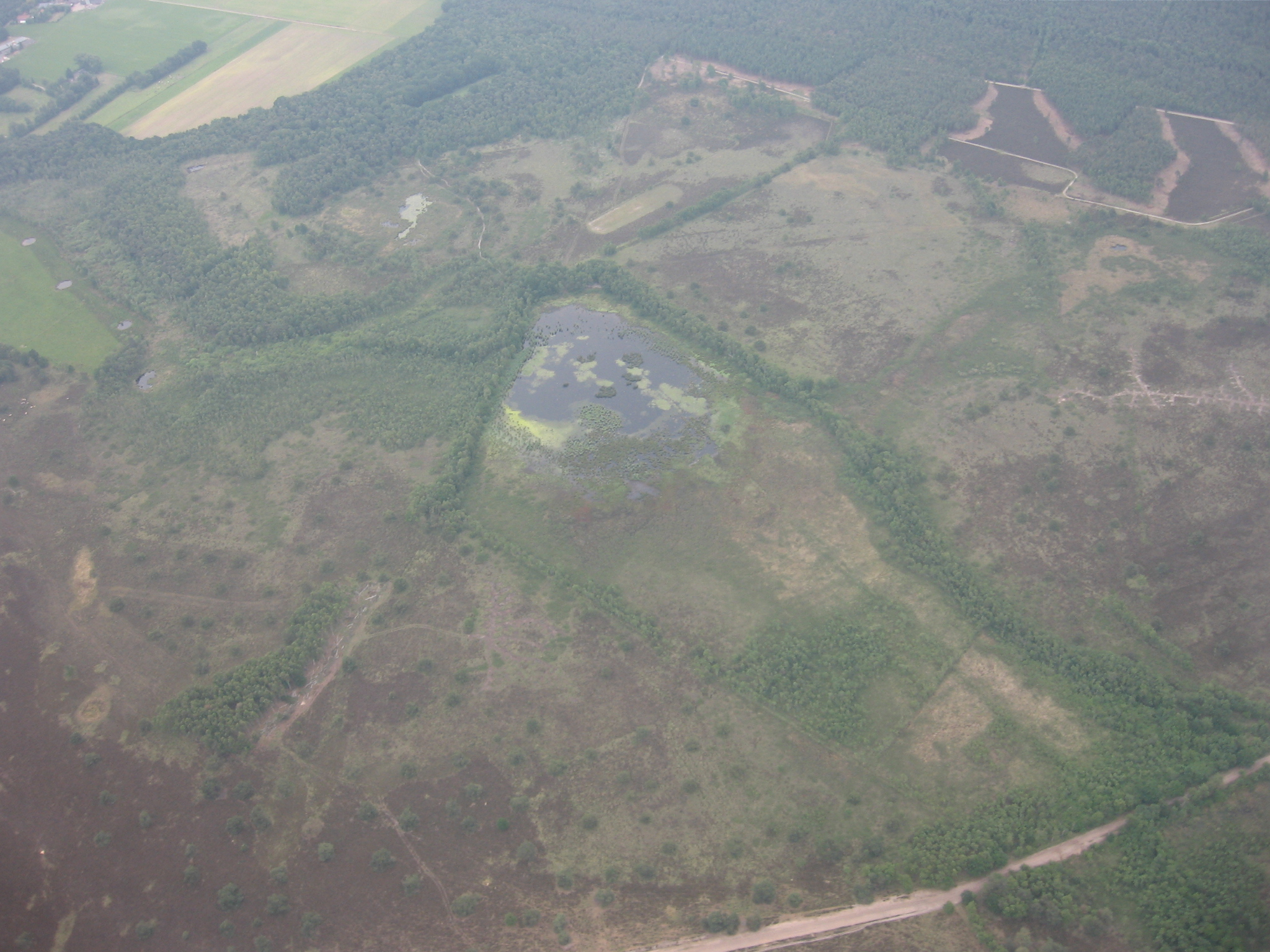 east of De Pals en Kroonvense Heide, also called Cartierheide